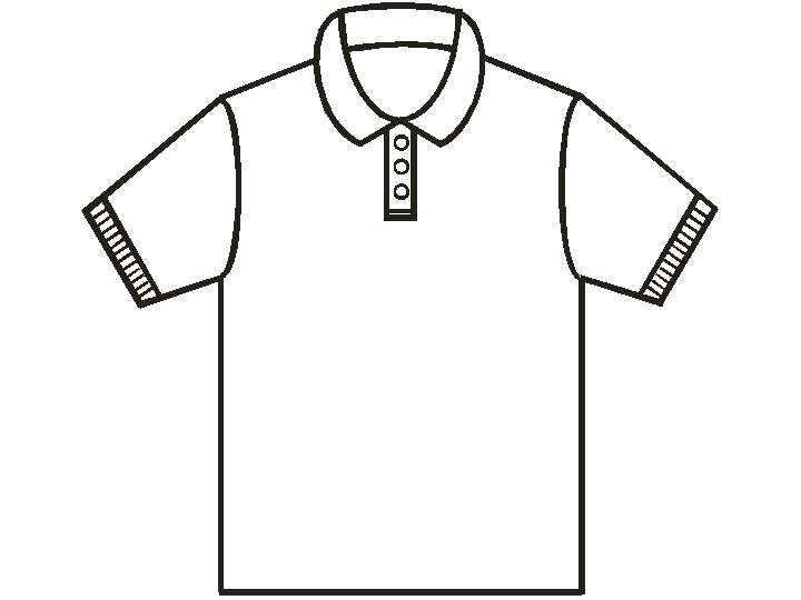 Basic pattern of a polo shirt